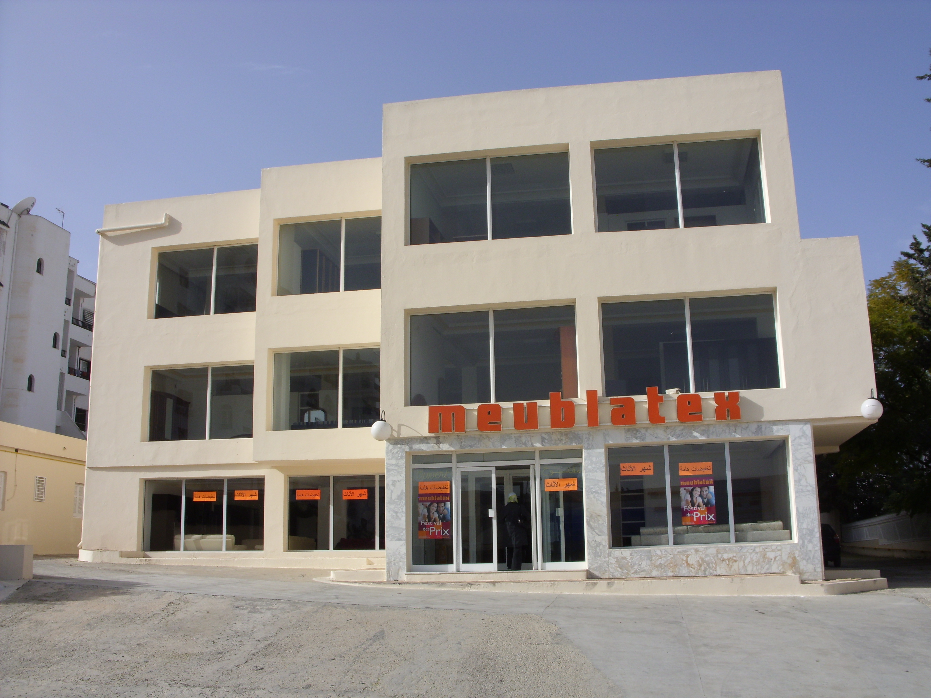 Meublatex chain store